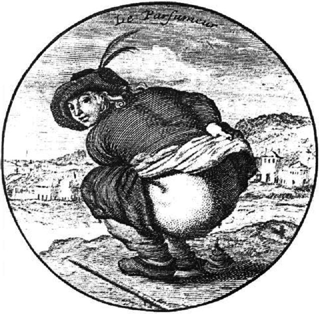 The Perfumer (depiction of the act of defecation)